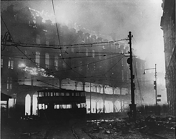 Building on fire after an attack during The Blitz, Sheffield.